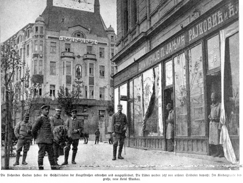 Austro-Hungarian troops posing during the Austro-Hungarian occupation of Serbia 1915-1918